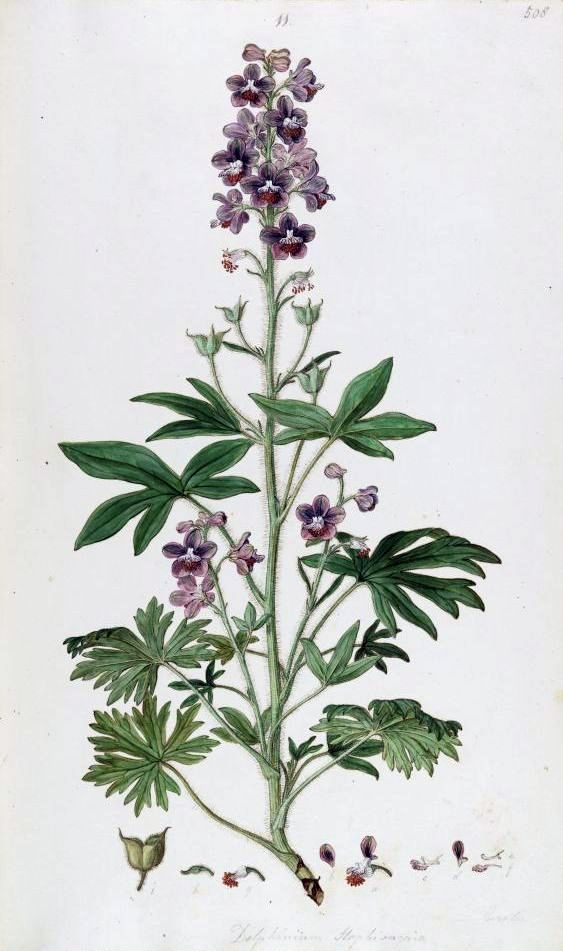 Image from Flora Graeca, presumably by Ferdinand Bauer, depicting Delphinium staphisagria